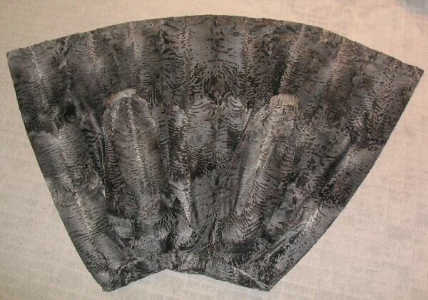 Natural karakul broadtail coat